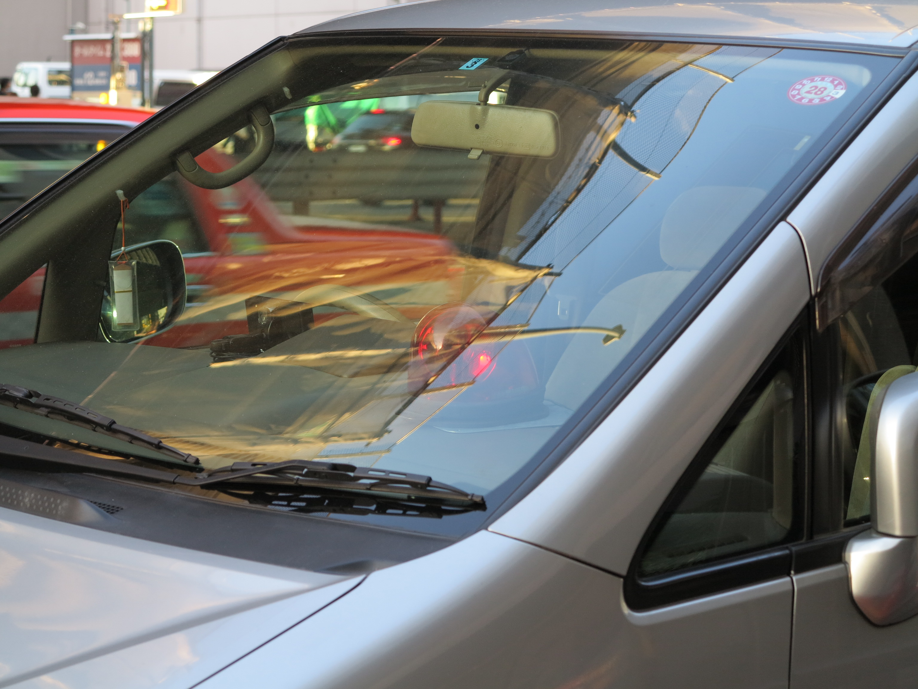 Removable rotary light on unmarked police car